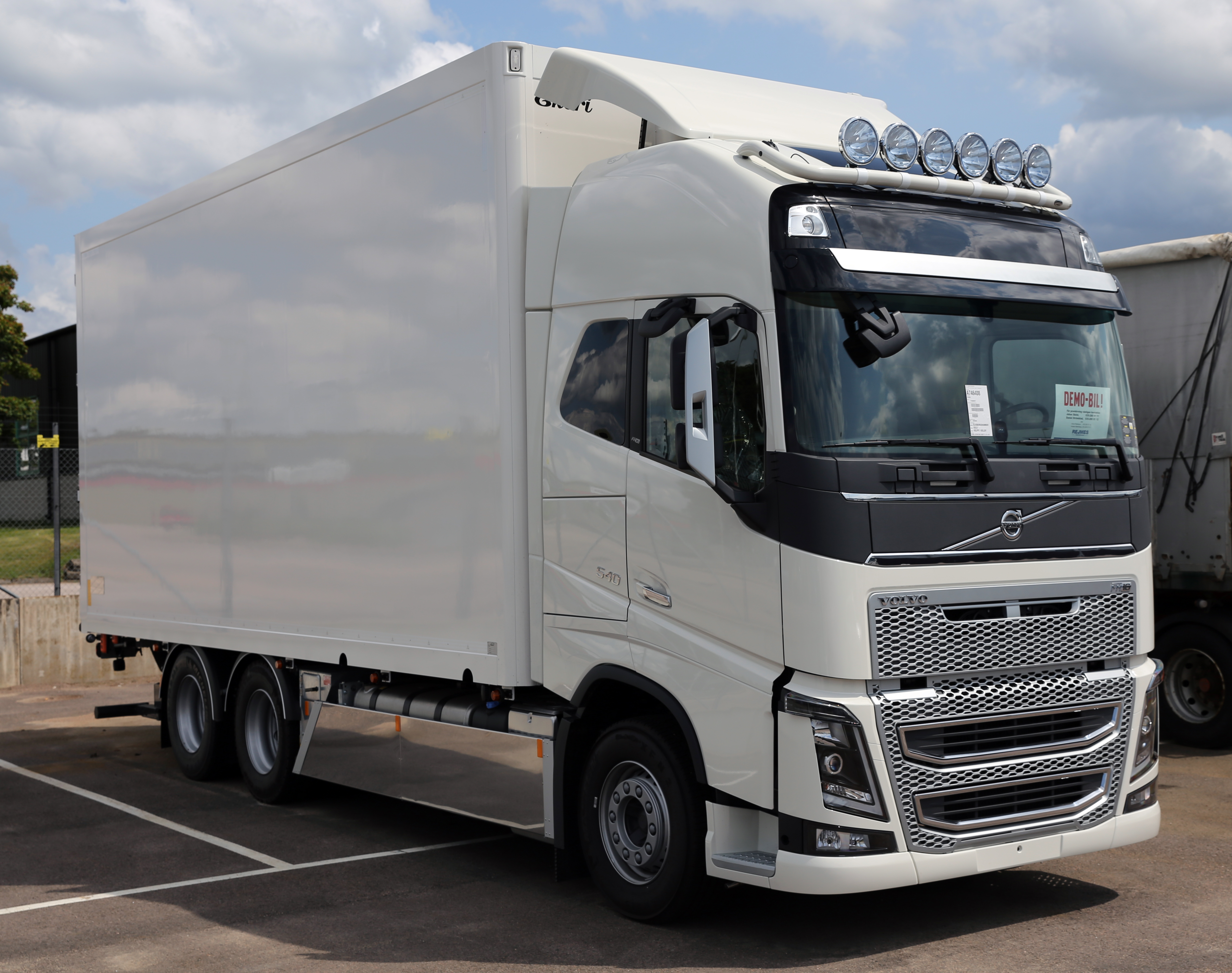 2013 Volvo FH16 540 truck, model code for this model is FH62R.